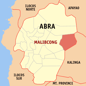 Map of Abra showing the location of Malibcong